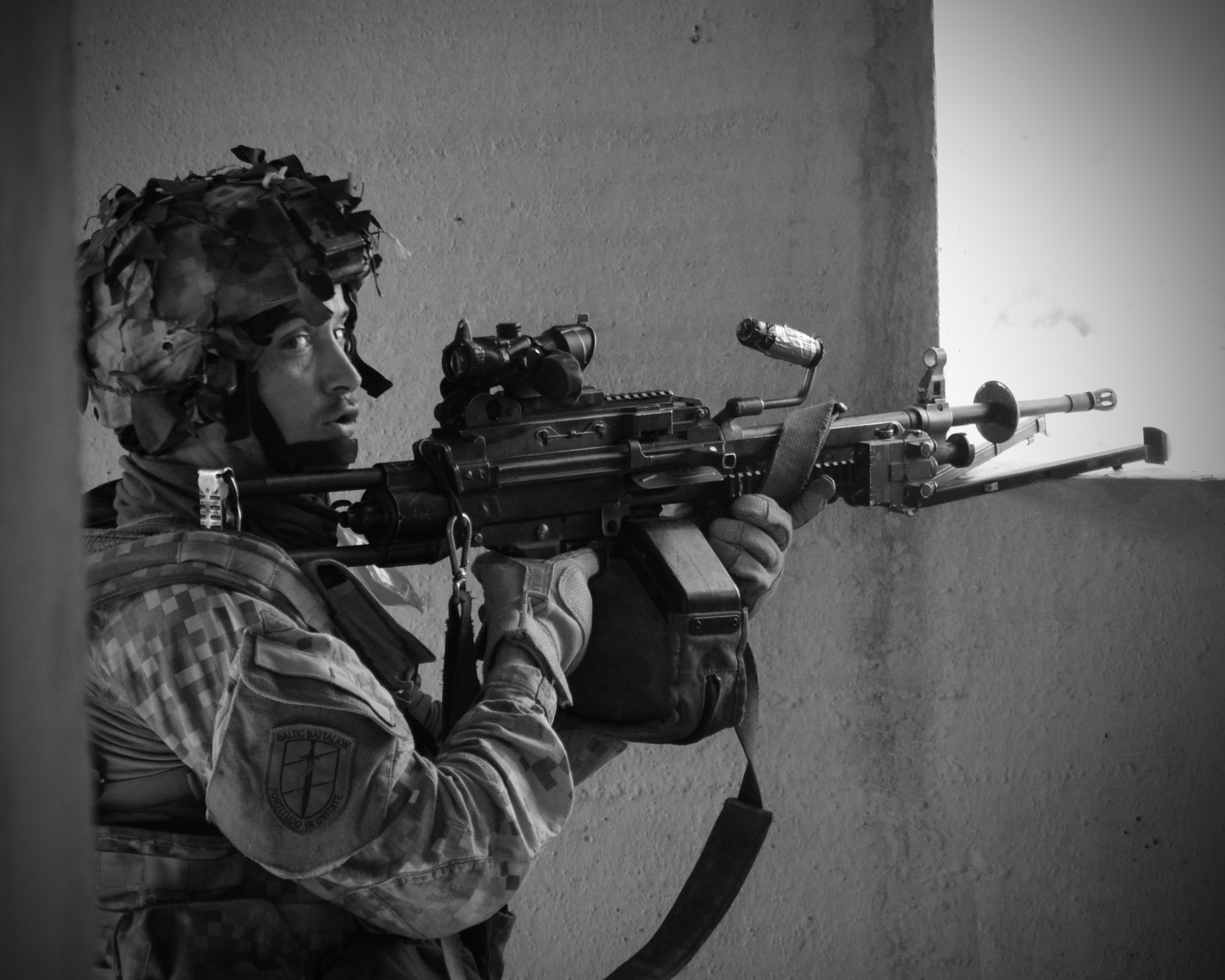 A Latvian Soldier on the training area Casas Altas from the Baltic Battalion during Trident Juncture 2015. NATO photo by Karl Schoen